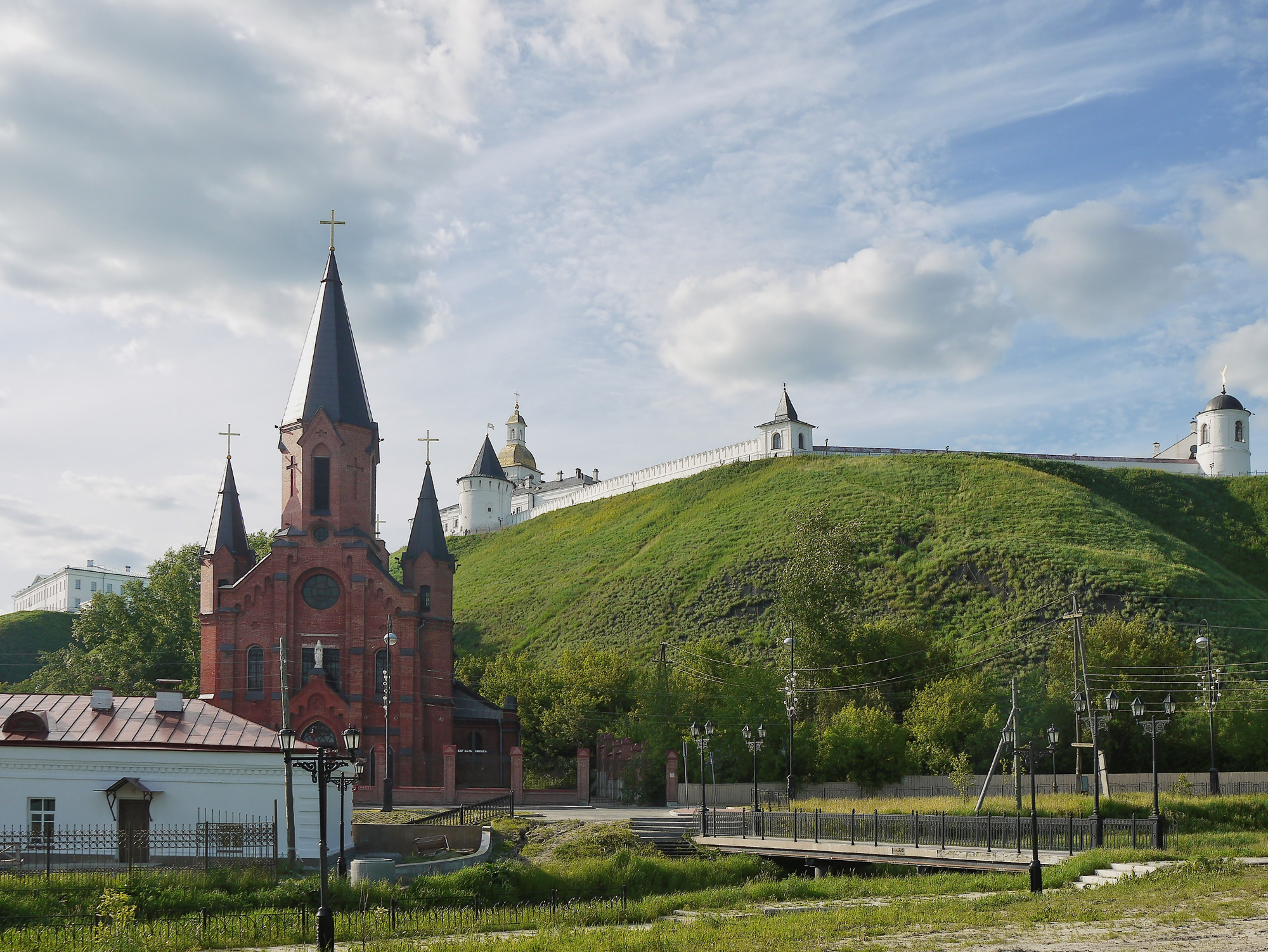 Holy Trinity Roman Catholic Church.